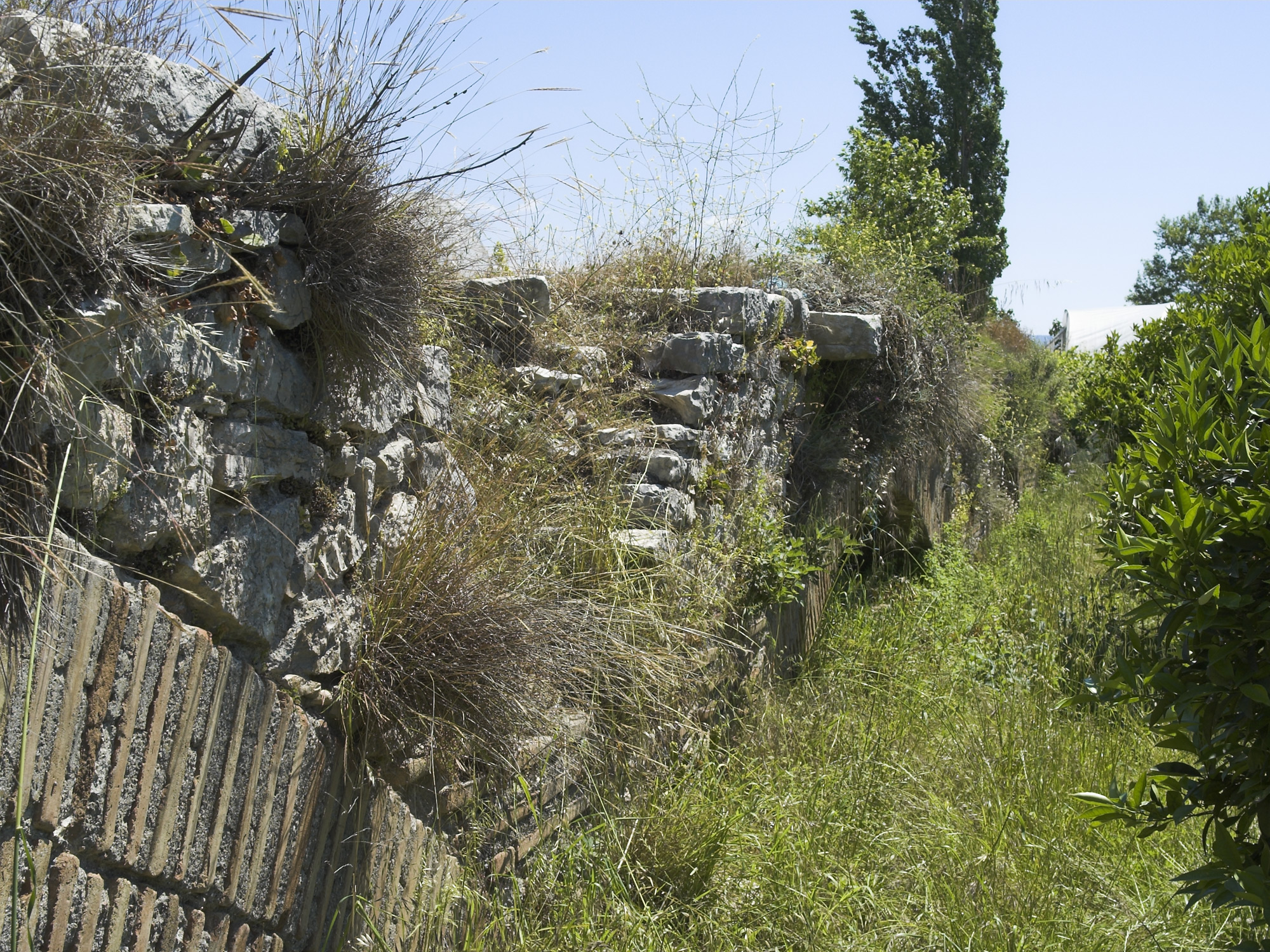 The Roman Bridge near Limyra, Lycia, Turkey. Eighth and ninth arch southside. The late antique structure is one of the oldest segmental arch bridges in the world. The 360 m long bridge crosses on 28 arches the Alakır Çayı, 26 of which being segmental arches with an average span to rise ratio of 5.3 to 1. Today, the structure is buried up to the vaults by river sedimentation.